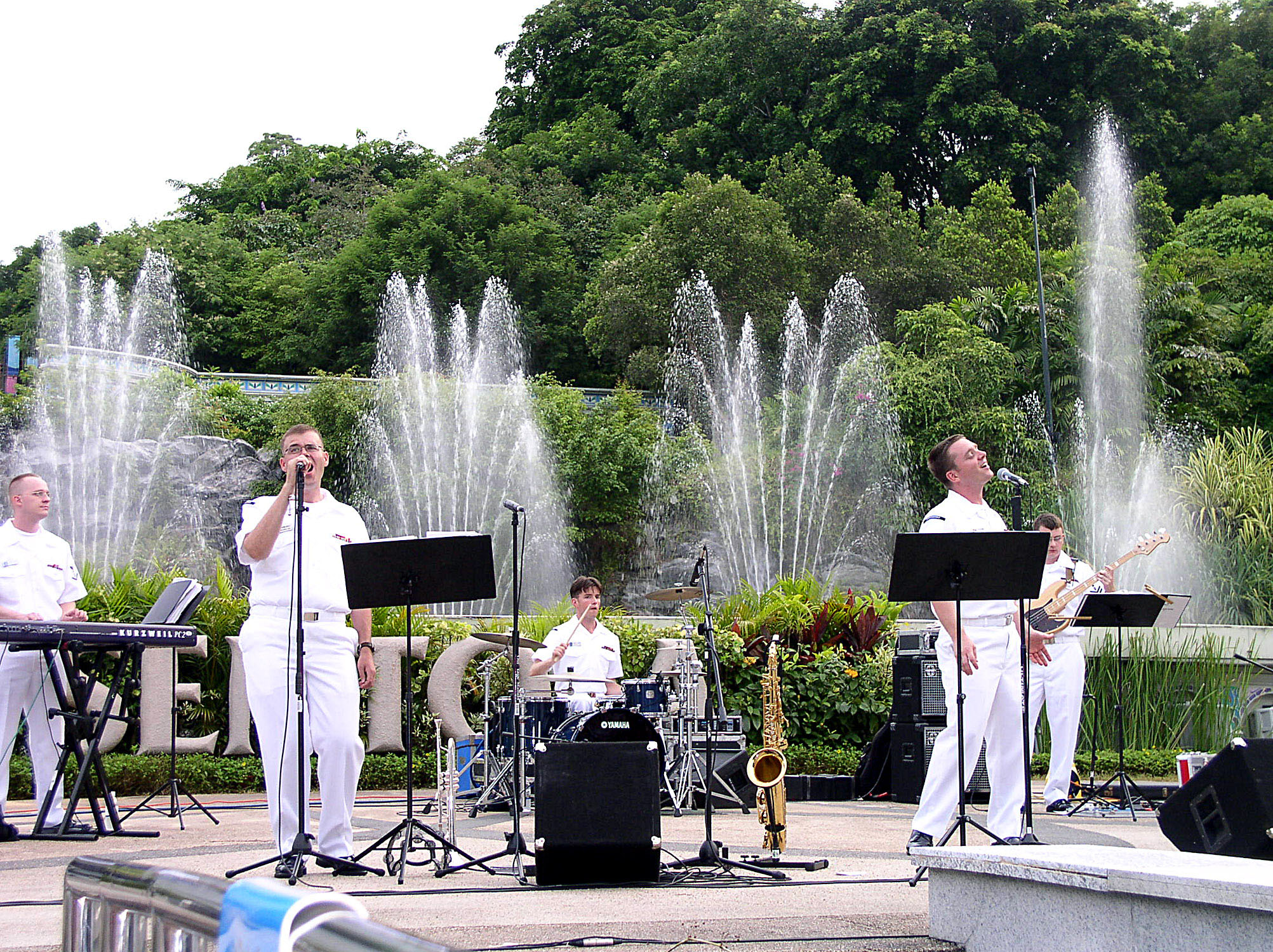 Sentosa Island, Singapore (June 11, 2005) – The United States Seventh Fleet Band Orient Express performs for hundreds of visitors at Singapore's Sentosa Musical Fountain. Orient Express is in Singapore in support of exercise Cooperation Afloat Readiness and Training (CARAT) 2005. CARAT is a regularly scheduled series of bilateral military training exercises with several Southeast Asian nations designed to enhance the interoperability of the respective sea services.